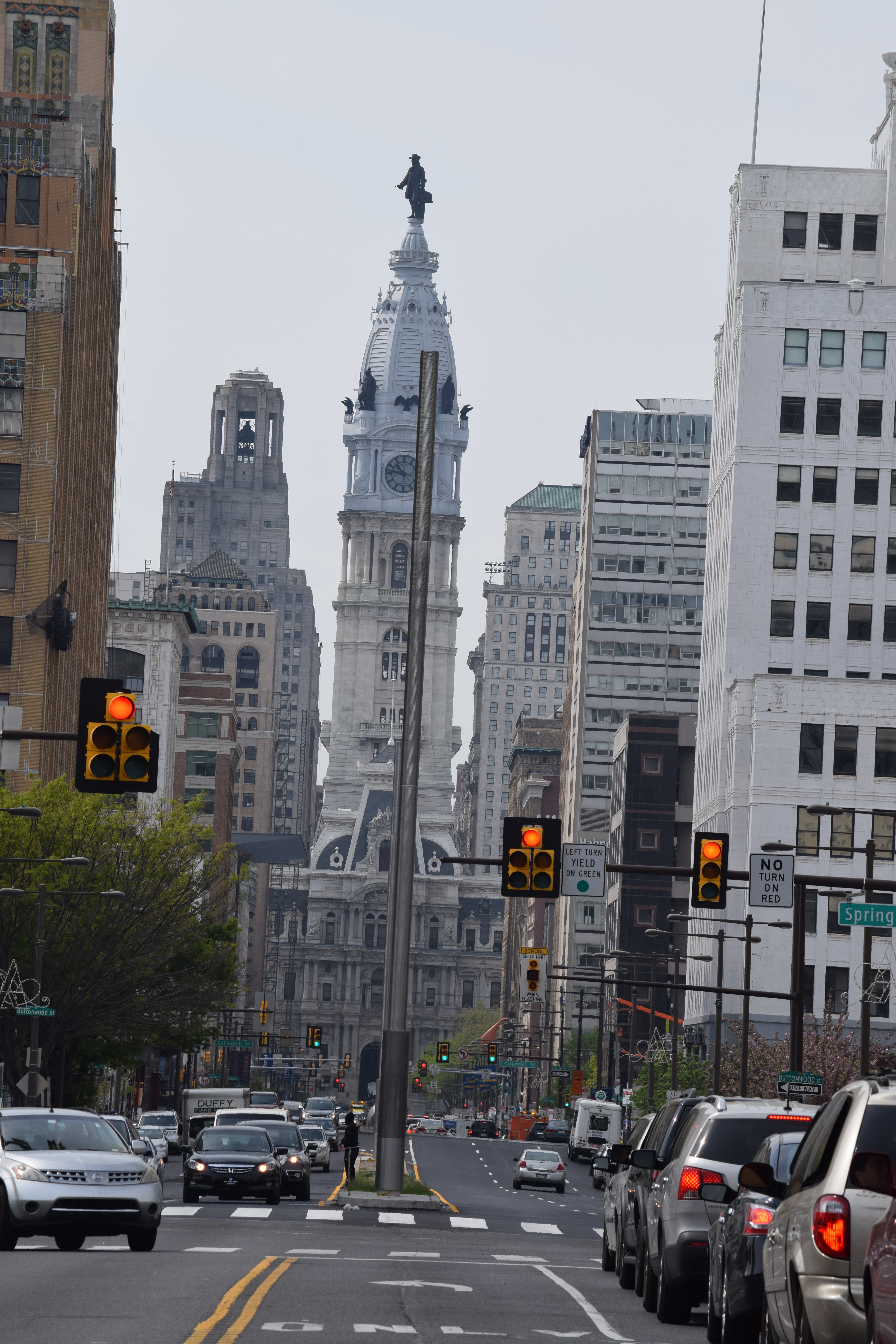 Image of City Hall with the new decorative lighting masts down Broad Street. The lighting masts begin a block south of Spring Garden Street.